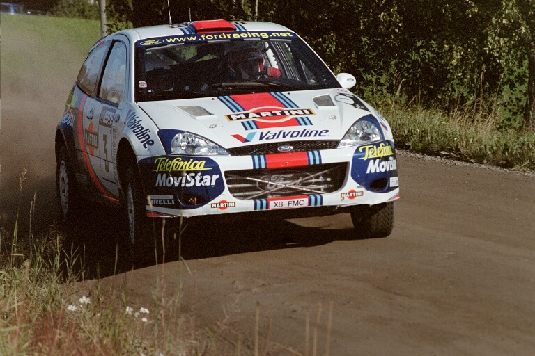 World Rally Championship WRC Rally Finland 2001